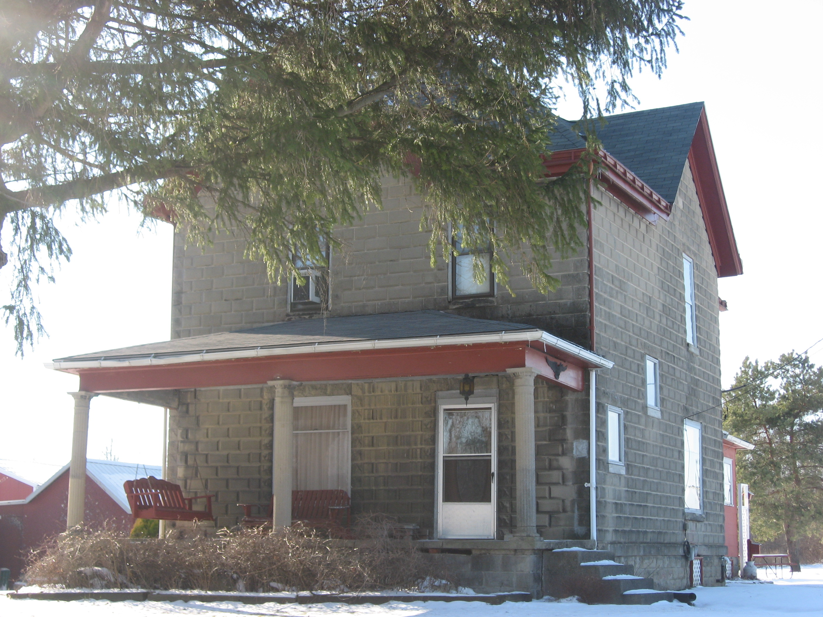 Front and northern side of the Samuel Bevier House, located at 1196 County Road 52 southwest of Garrett in Keyser Township, DeKalb County, Indiana, United States. Built in 1905, it is listed on the National Register of Historic Places.